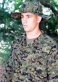 This photograph of a U.S. Marine wearing the brand-new (at the time) MCCUU was taken from a Tuesday, July 3, 2001 Stars and Stripes internet article, ("Officials went to the source to ensure new Marine uniform pleased troops", by Mark Oliva and Jan Wesner Childs, Stars and Stripes, Okinawa bureau), about the MARPAT camouflage pattern. The photo credit is listed as "U.S. Marine Corps / Stars and Stripes", showing that the U.S. Marine Corps provided the image (its own) to the Stars and Stripes.